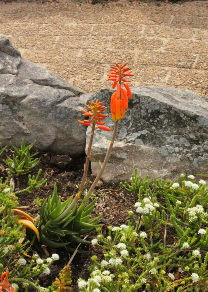 Koudeberg Aloe. Aloe juddii in South African gardens.